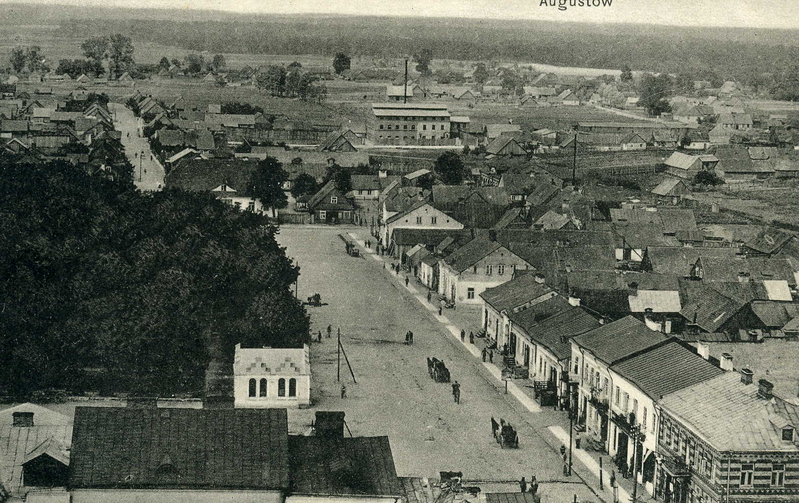 Market Square in Augustów (Poland), about 1915